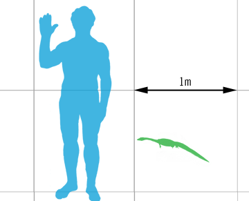 Size of the aquatic choristoderan Hyphalosaurus lingyuanensis compared with a human. 1 grid segment = 1 square meter. H. linguanensis scaled based on the holotype specimen IVPP V11075, as figured in Gao & Ksepka, 2008. Gao, K.-Q. and Ksepka, D.T. (2008). "Osteology and taxonomic revision of Hyphalosaurus (Diapsida: Choristodera) from the Lower Cretaceous of Liaoning, China." Journal of Anatomy, 212(6): 747–768.